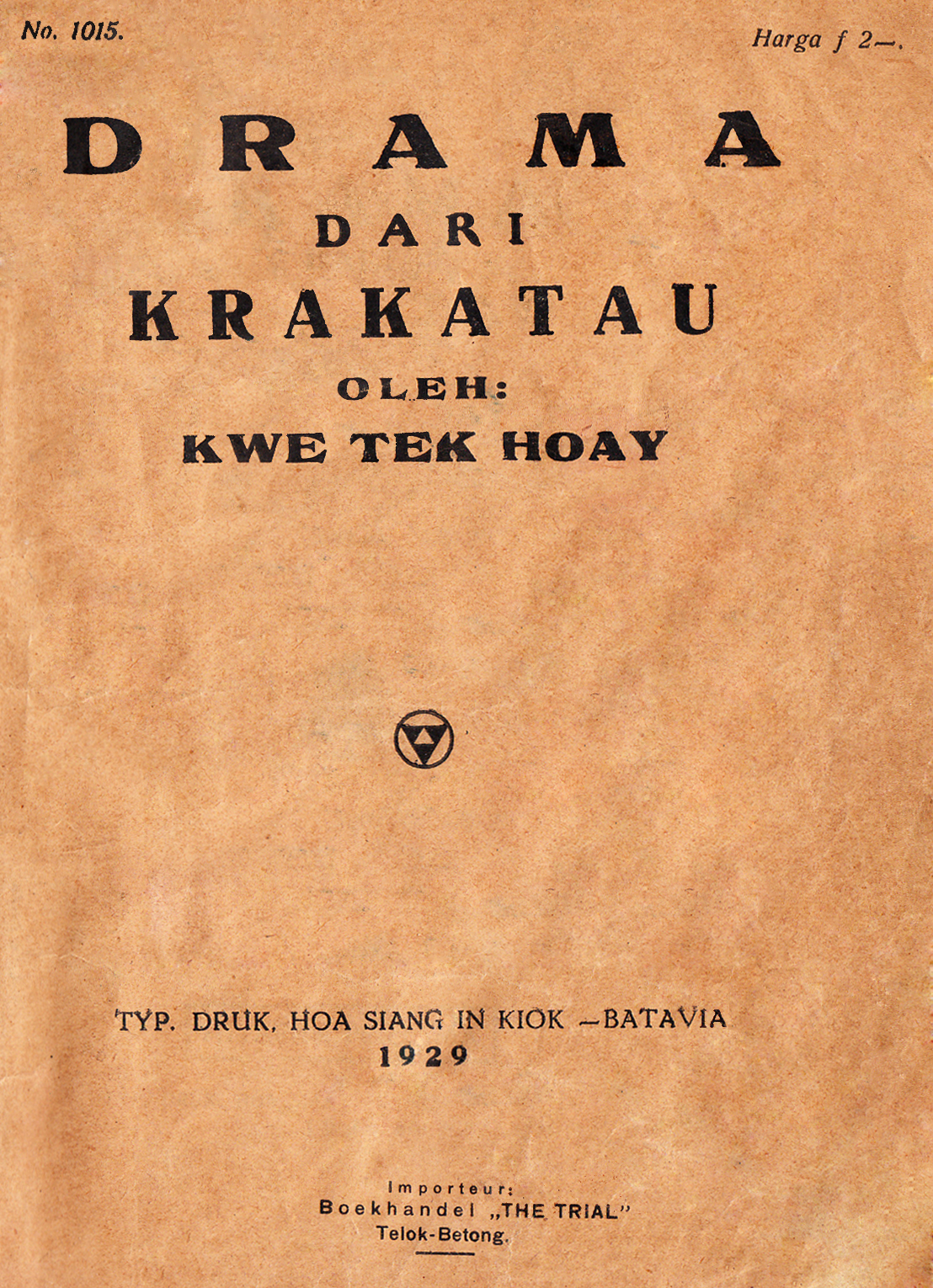 Cover of 1929 first edition of Kwee Tek Hoay's Drama dari Krakatau, scanned from the collection of collection of Museum Tamansiswa Dewantara Kirti Griya, Yogyakarta. Cover has been digitally restored by Crisco 1492 (removed stickers, stains, holes, etc.)